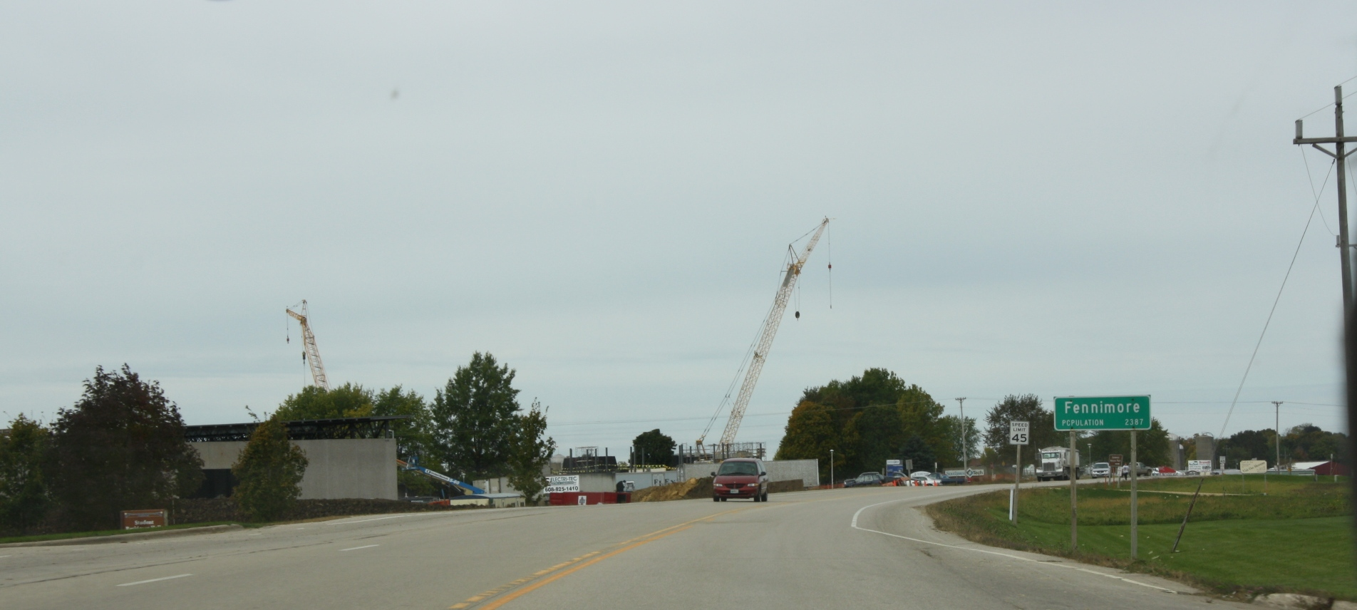 Looking west at Fennimore, Wisconsin's sign on U.S. Route 18. Note a new addition to Southwest Technical College in the background on the right.